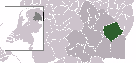 Location map of Dutch municipality in Drenthe